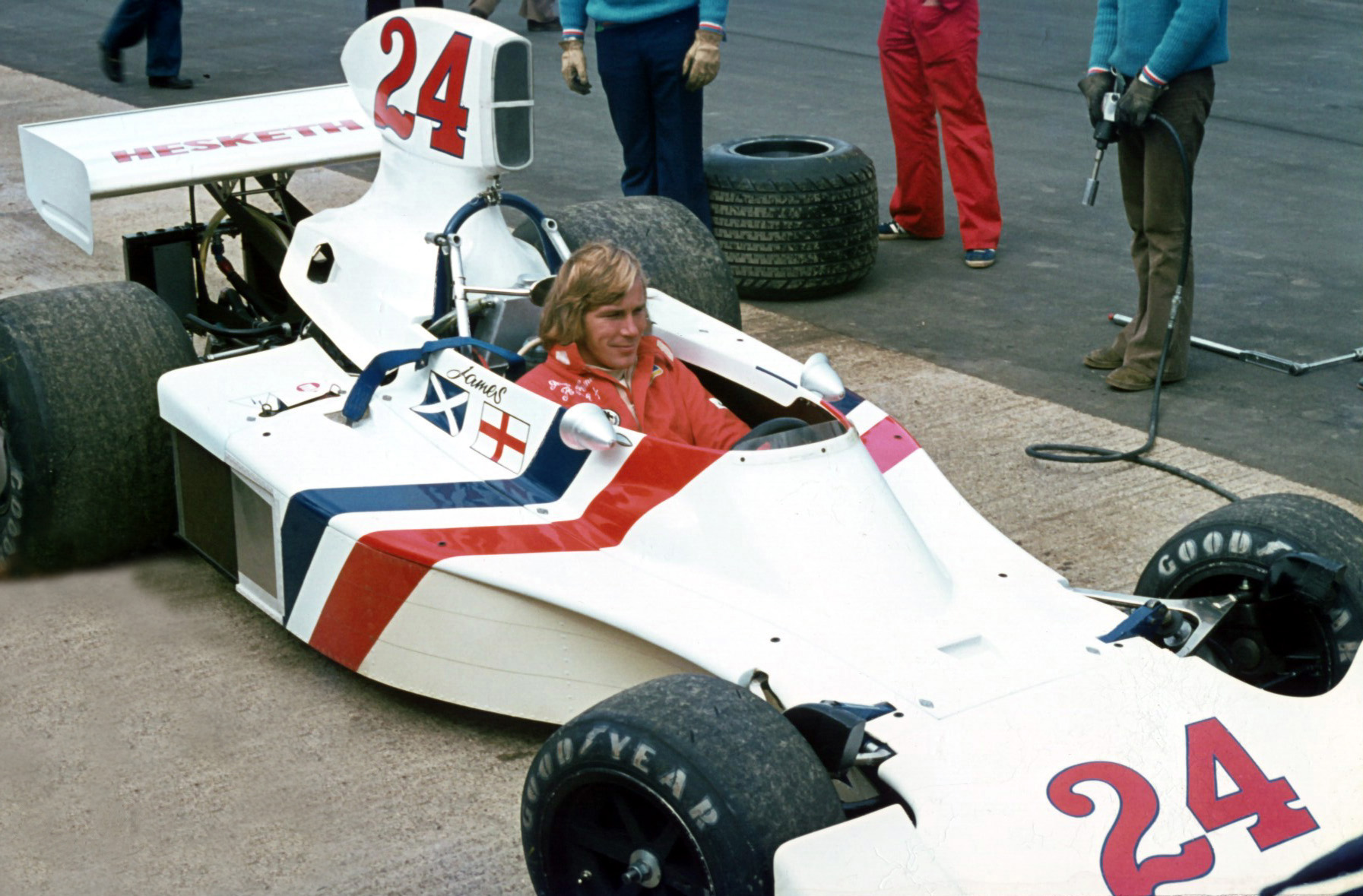 James Hunt in Hesketh March 308, Brands Hatch Pit lane, Simoniz Daily Mail Race of Champions, England 1974.